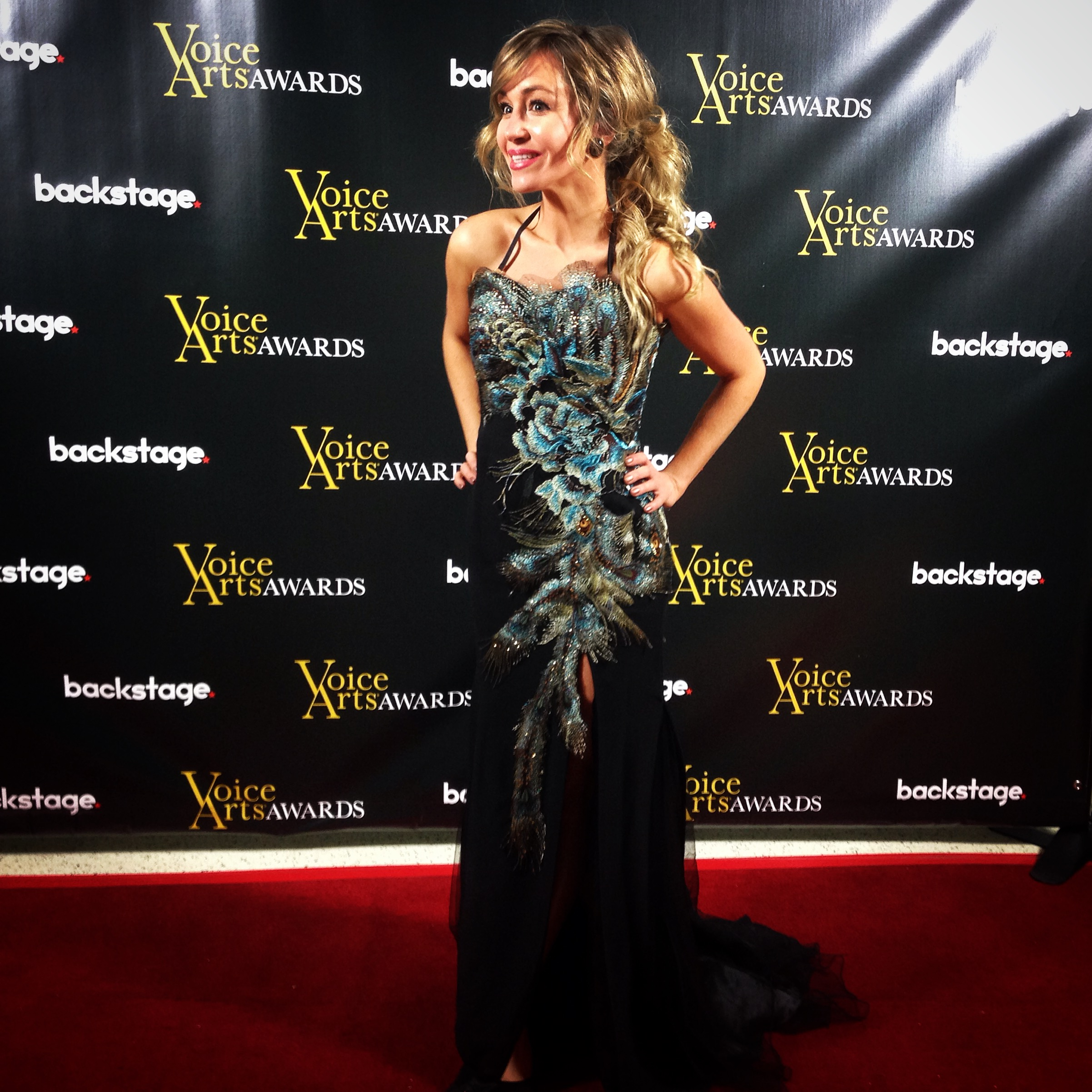 Nominee Steph Lynn Robinson attending the 2015 Voice Arts™ Awards in Los Angeles, California on November 15th. Nominated for "Outstanding TV Animation - Best Voiceover" for her roles as Ping & Chachi on the animated series Julius Jr.